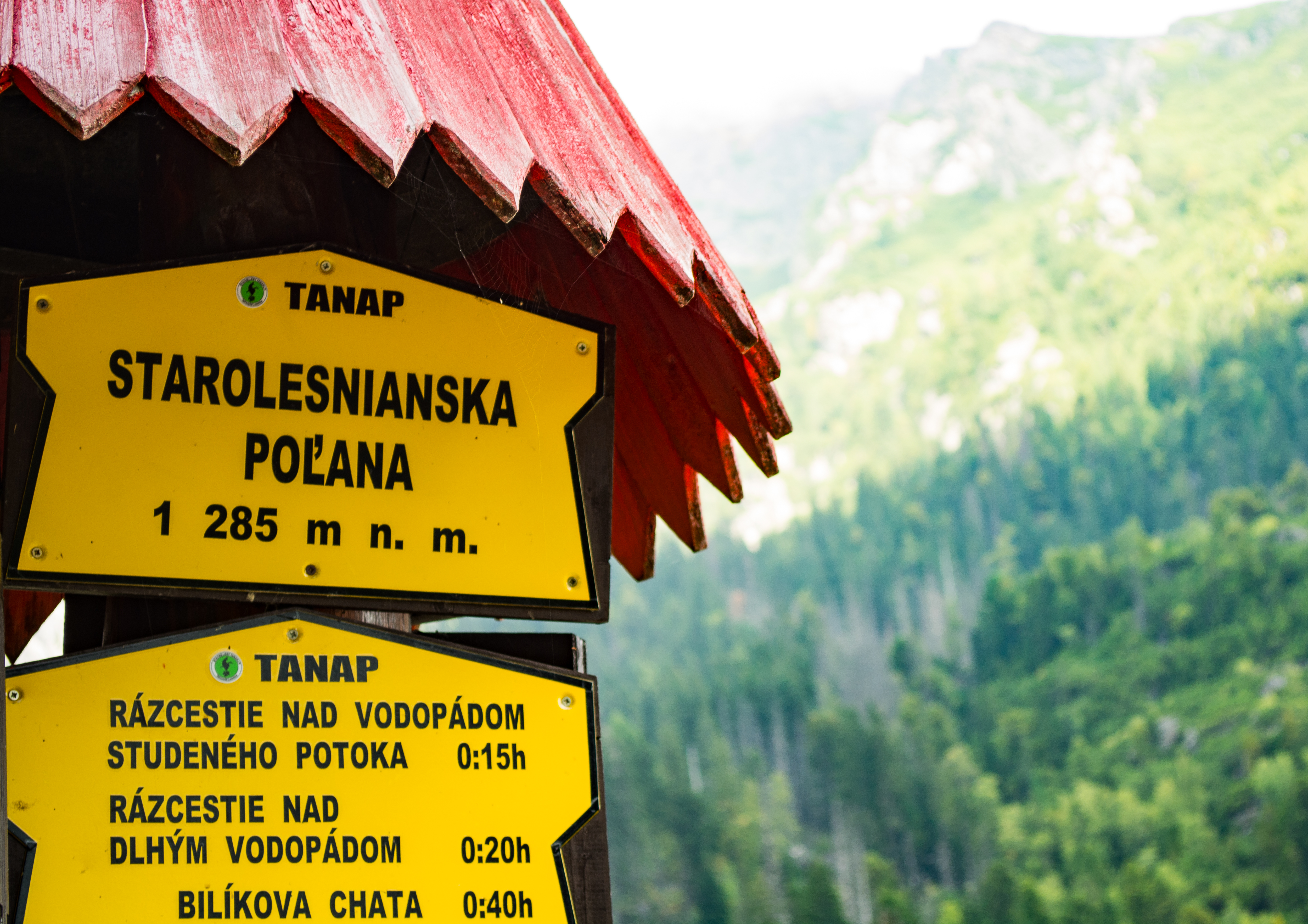 Starolesna Polana sign in High Tarta Mountains - Slovakia.